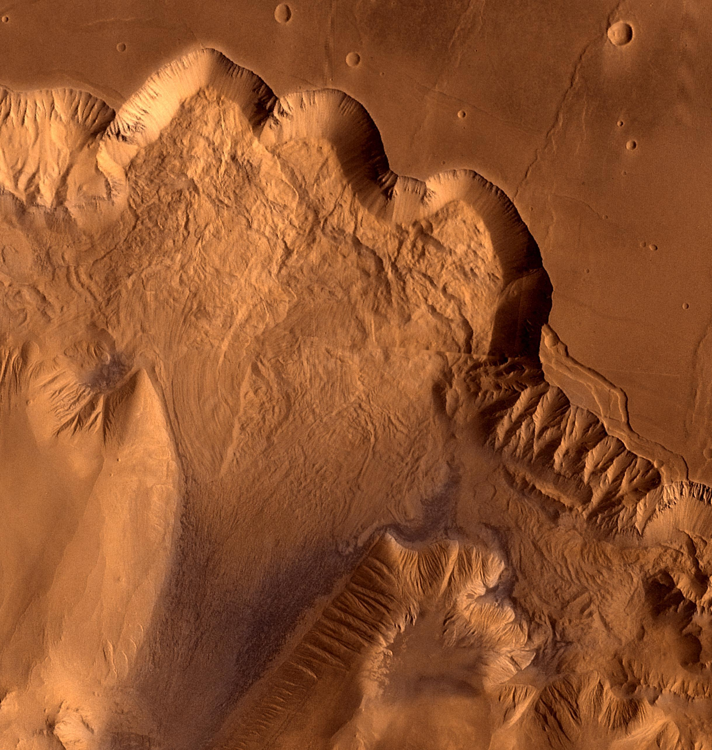 This synthetic oblique view shows Ophir Chasma, the northern most one of the connected valleys of Valles Marineris. For scale, the large impact crater in the right corner is about 30 km wide. Ophir Chasma is a large west-northwest-trending trough about 100 km wide. The Chasma is bordered by high-walled cliffs, most likely faults, that show spur-and-gully morphology and smooth sections. The walls have been dissected by landslides forming re-entrants. The volume of the landslide debris is more than 1,000 times greater than that from the May 18, 1980, debris avalanche from Mount St. Helens. The longitudinal grooves seen in the foreground are thought to be due to differential shear and lateral spreading at high velocities.